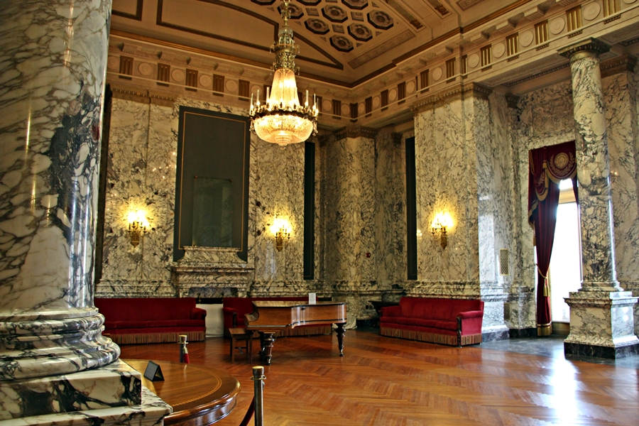 Interior of the State Reception Room in Olympia, United States pictured in 2017